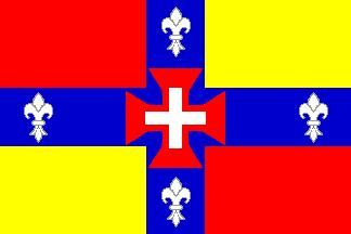 Bandeira de Iguape/SP